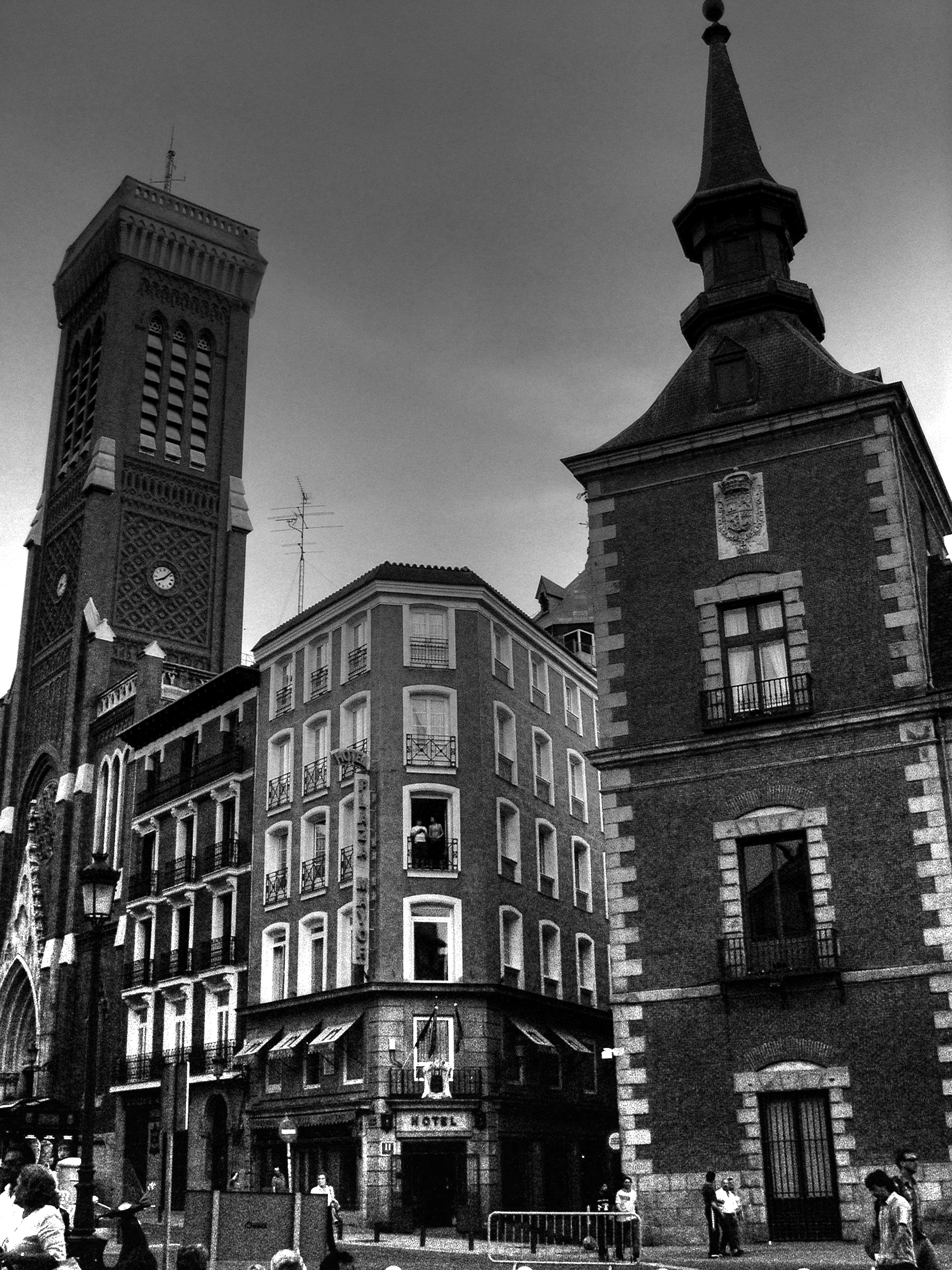 Calle de Atocha (street) in Madrid (Spain). Left: Parroquia de Santa Cruz (church, 1902). Right: Palacio de Santa Cruz (1636).